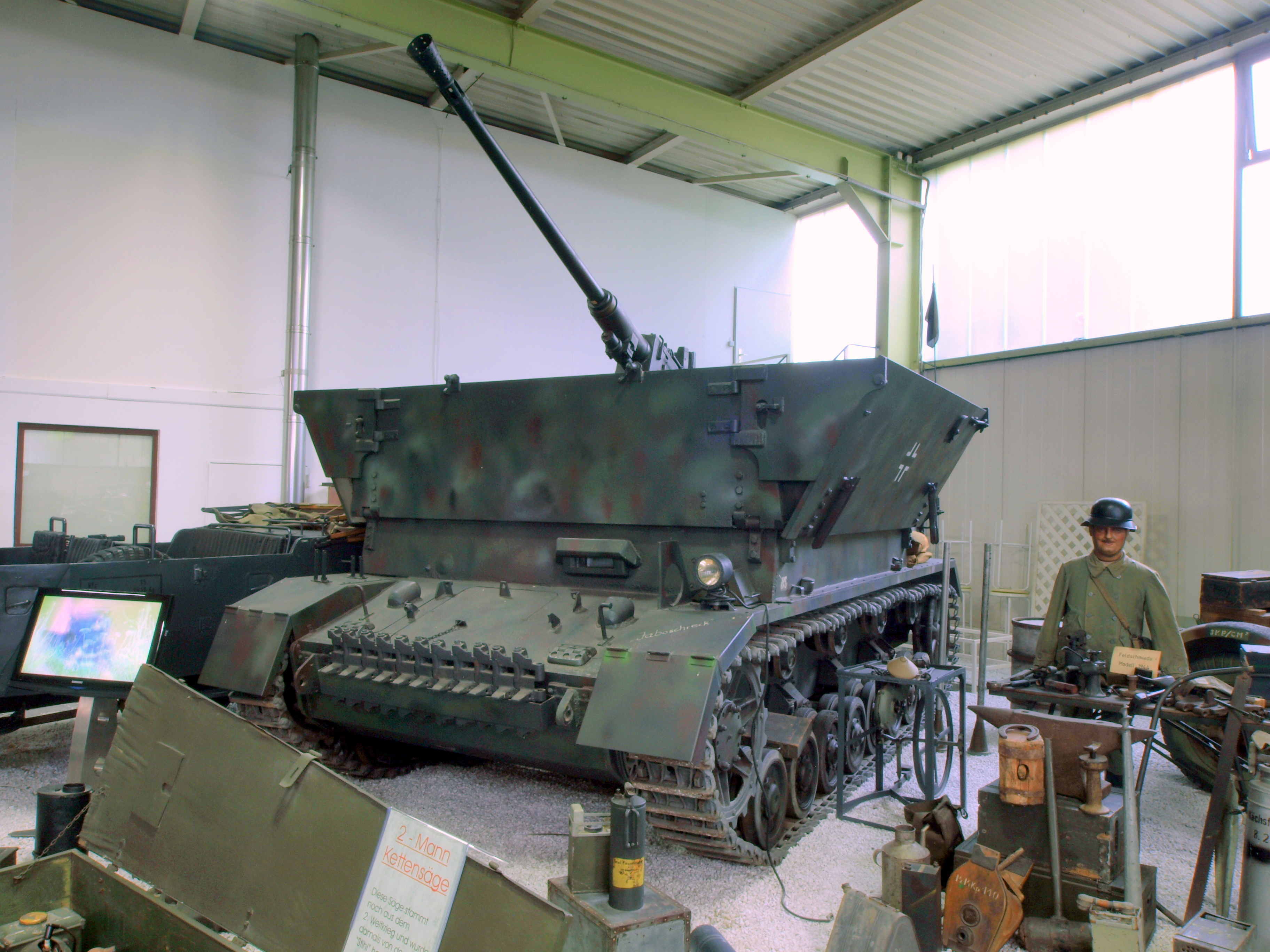 3,7 cm Flakpanzer IV Möbelwagen photographed at the Auto & Technic museum Sinsheim.